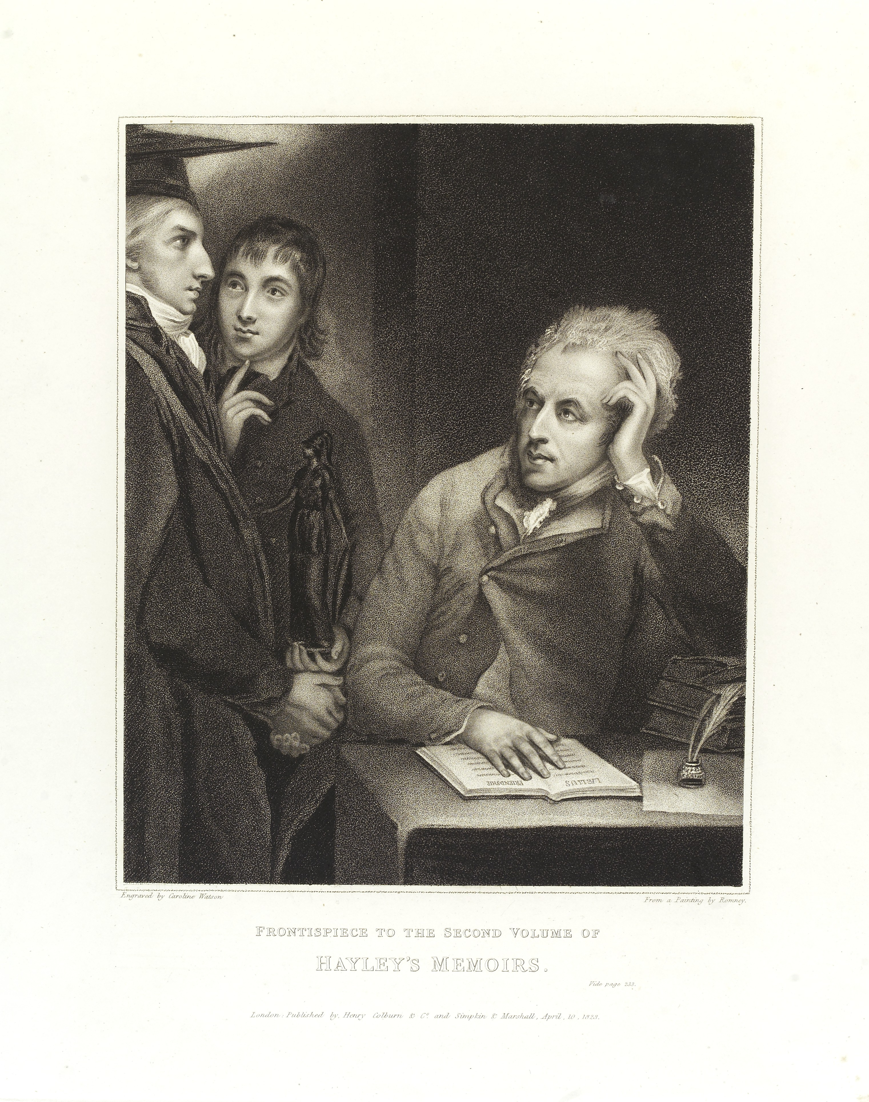 Stipple engraving showing the poet, playwrite and biographer, William Hayley (1745-1820), seated at a table. His right hand rests on a book with running titles 'Laelius', 'Friendship'. Standing at left, a boy holds a statuette of Athena and stares quizzically at his tutor. (Hayley's work was only moderately successful but he was a great patron of the arts and of artists such as William Blake. He was offered the poet laureateship in 1790, an honour which, for reasons unknown, he declined. An advocate of fresh air and a teetotaller, he was intrigued by medicine and eager to use new inventions such as the ‘electrical machine’ and the ‘shower-bath’. Generous with his knowledge, unhesitatingly he would doctor villagers and friends alike.) Iconographic Collections Keywords: Goddess; Georgian; Poets; Portraiture; Tutor; Costume; George Romney; Caroline Watson